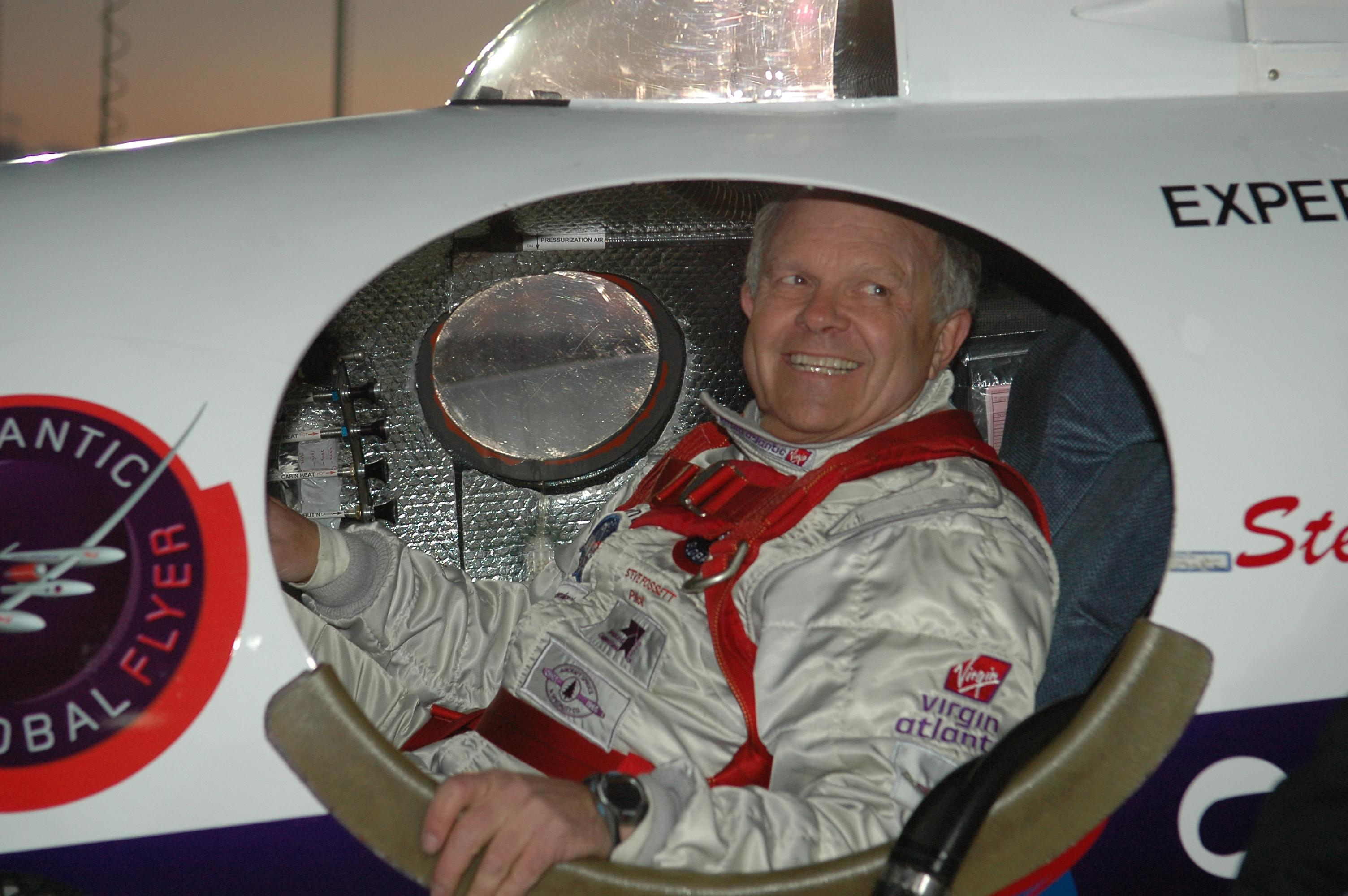 At NASA Kennedy Space Center’s Shuttle Landing Facility, Steve Fossett is happy and eager to start what he hopes will be a historic flight in the Virgin Atlantic GlobalFlyer he is strapped into. Fossett will pilot the GlobalFlyer on a record-breaking attempt by flying solo, non-stop without refueling, to surpass the current record for the longest flight of any aircraft. This is the second attempt in two days after a fuel leak was detected Feb. 7. The expected time of takeoff is 7 a.m.